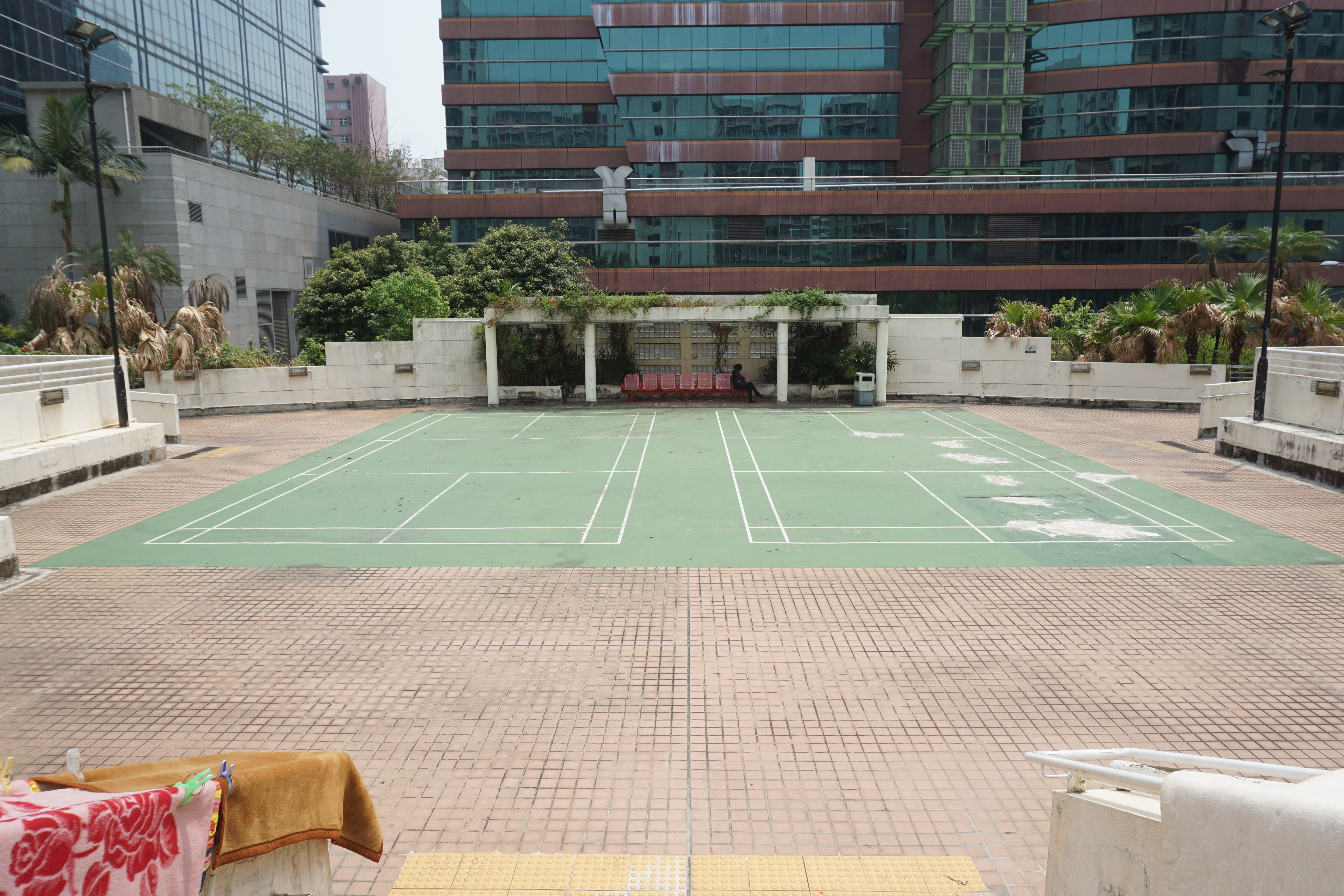 Yee Ching Court in Sham Shui Po, Hong Kong.